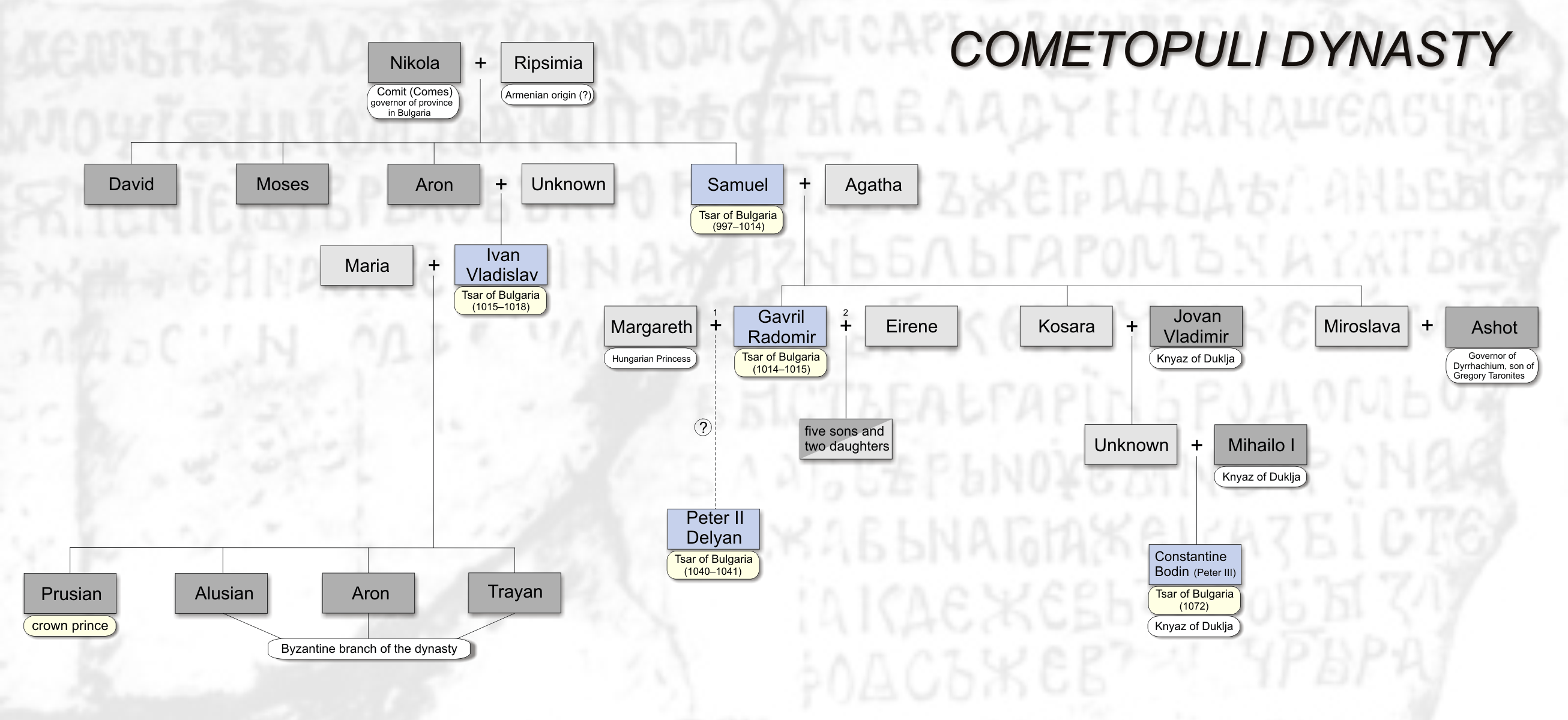 Genealogy of the Cometopuli dynasty, rulers of the First Bulgarian Empire.